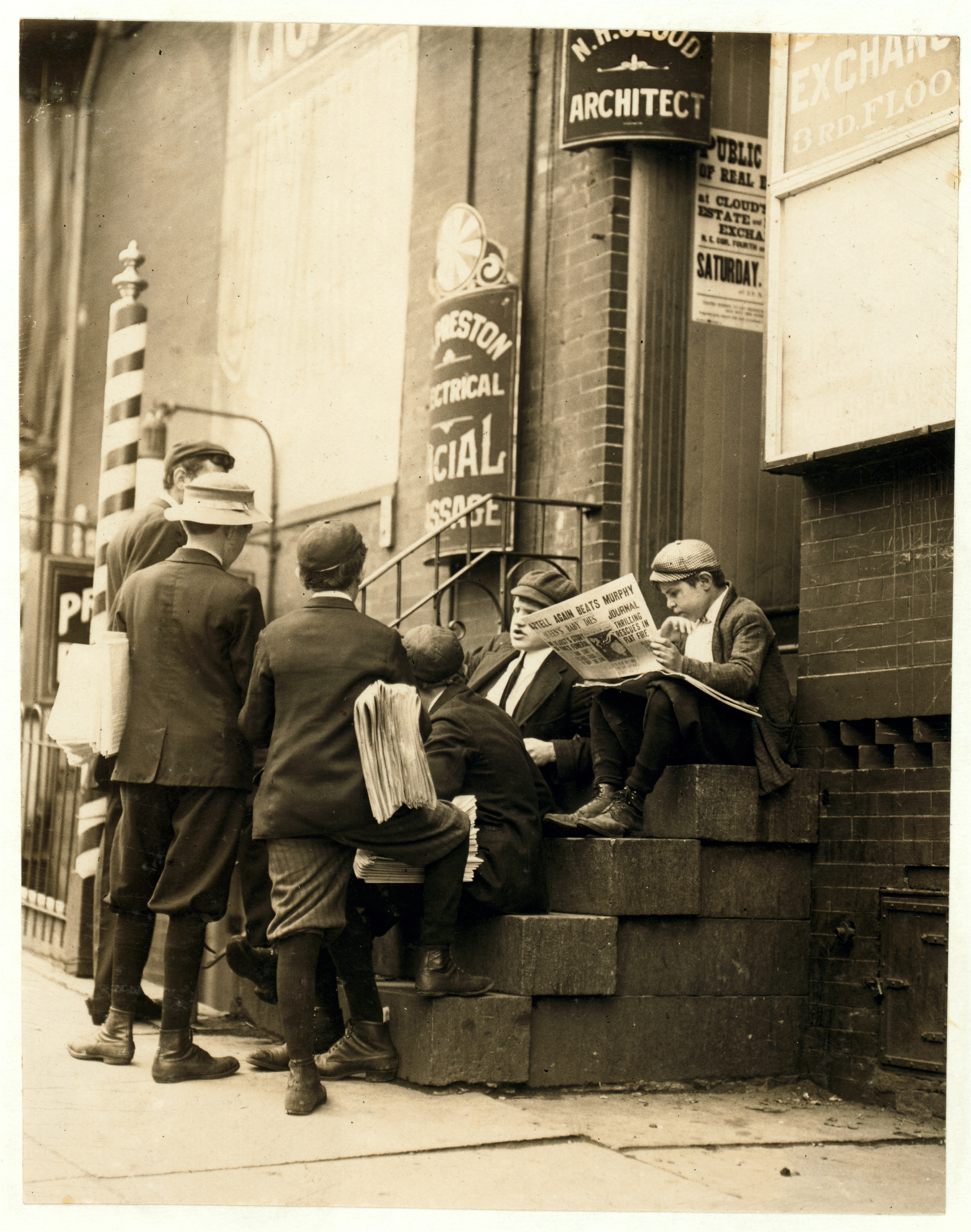 Group of newsboys on a stoop at 4th & Market Sts. "Take our mugs, mister?" Investigator, Edward F. Brown. Location: Wilmington, Delaware. Photograph by Lewis Wickes Hine, May 1910. From the National Child Labor Committee Collection at the Library of Congress